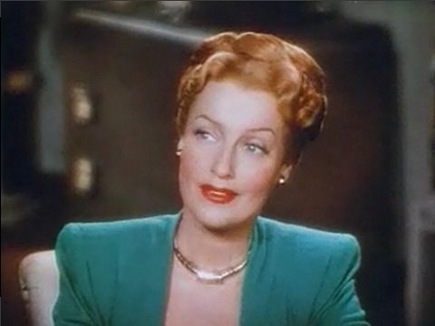 Screenshot of Jeanette MacDonald from the trailer for the film Three Daring Daughters